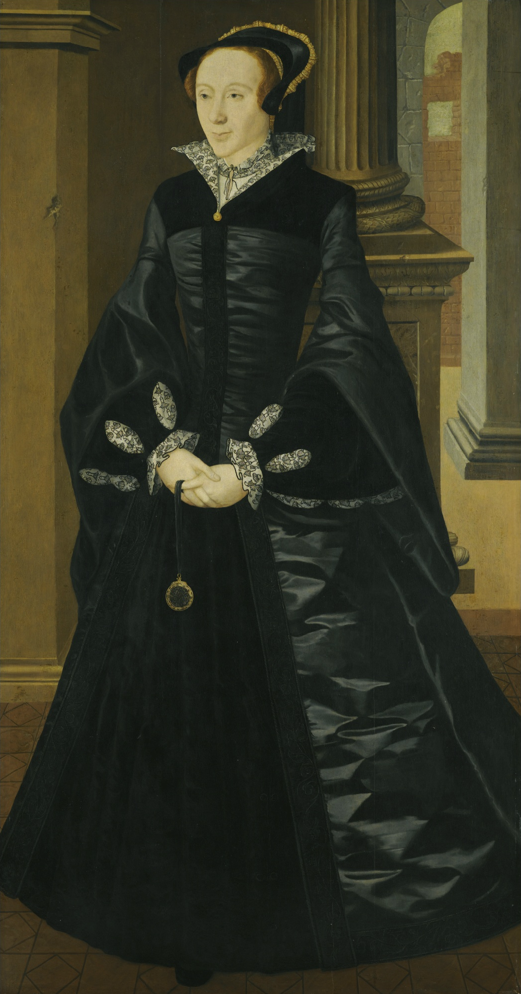 Portrait of an Unknown Lady of the English Court, formerly identified as Mary I of England, now thought to be Lady Margaret Douglas (1515-1578), c. 1546